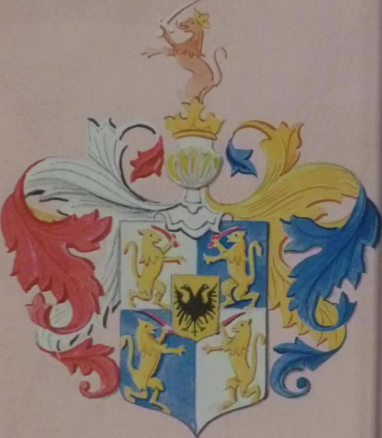 Coat of arms of Imre Thököly. Castle of Kežmarok, 1906 commemorative file in the Thököly room.